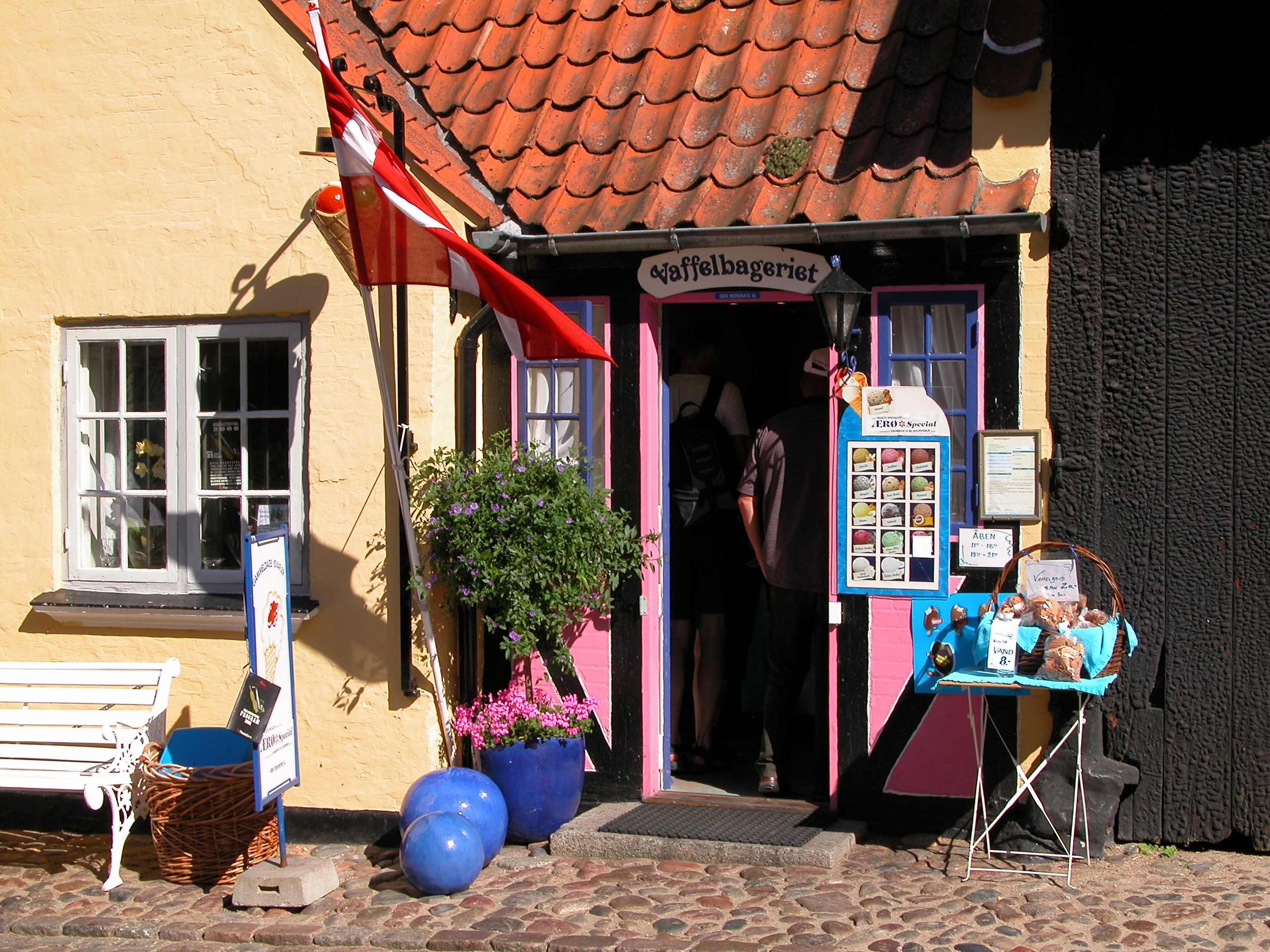 Vestergade, Ærøskøbing, Denmark